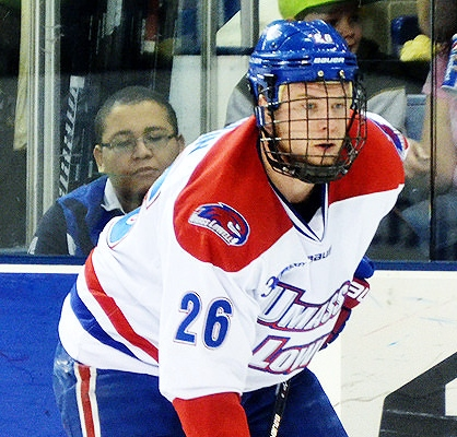 Christian Folin, Schwedish ice hockey defenseman